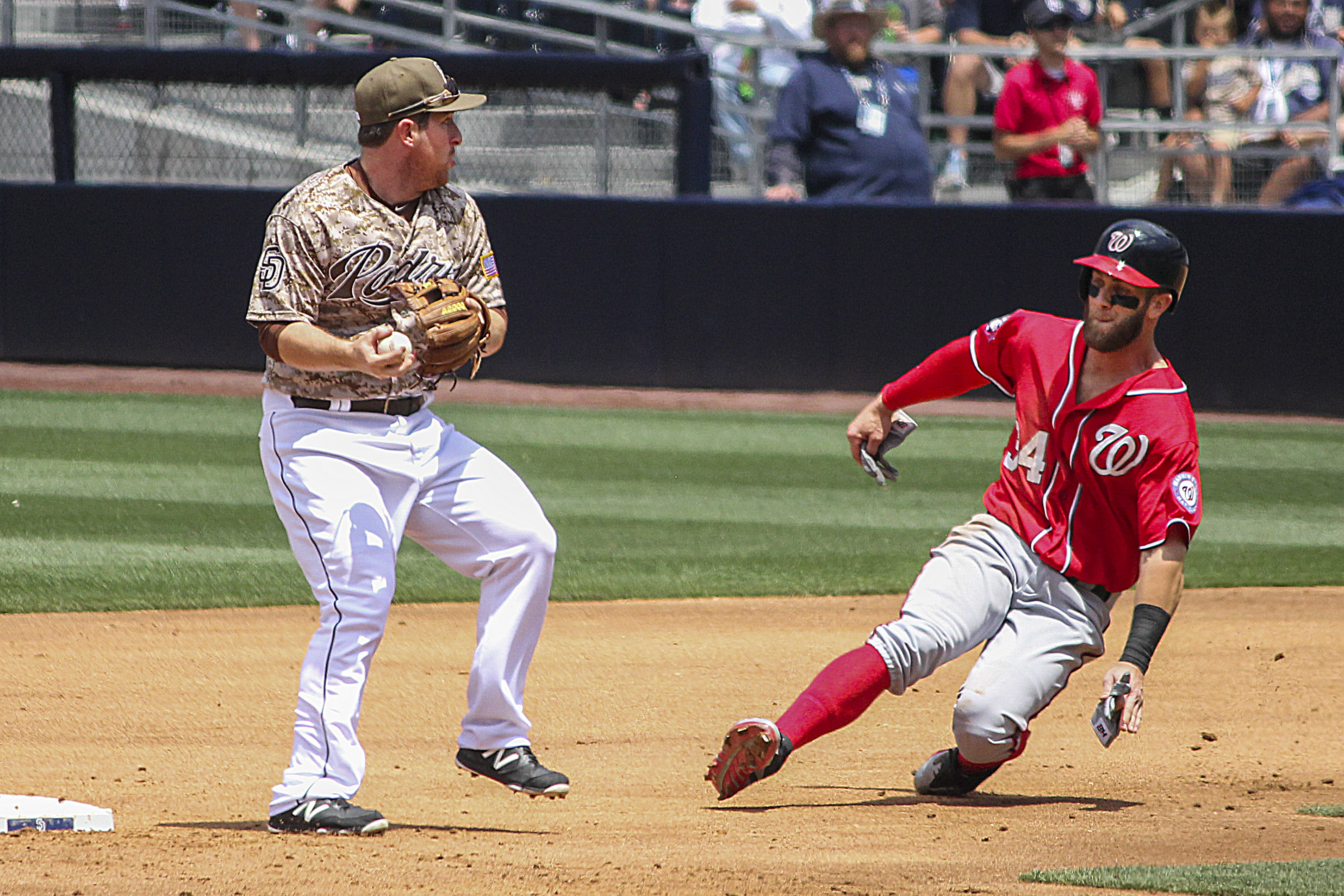 Jedd Gyorko and Bryce Harper.